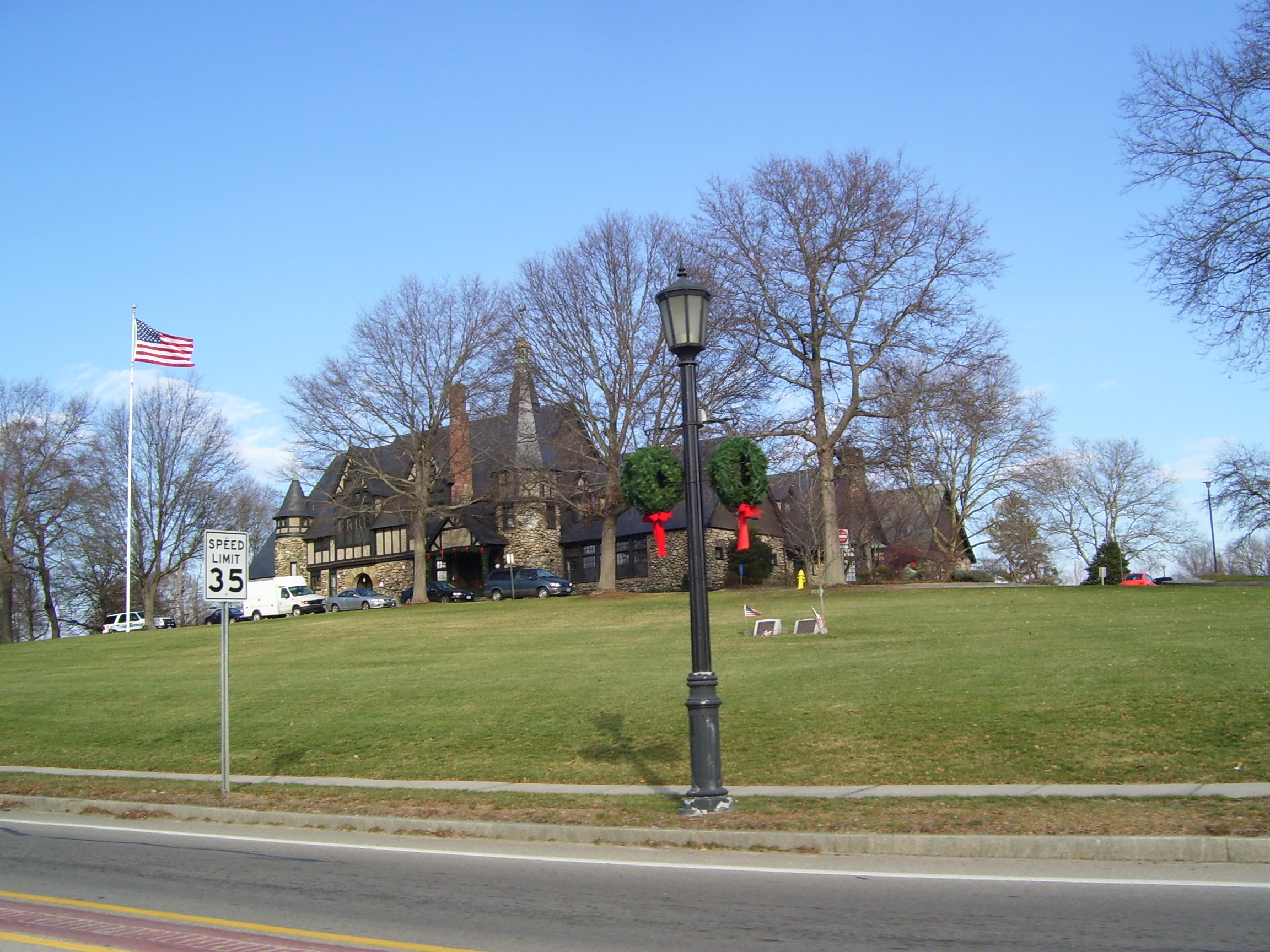 My 2008 photo of the town hall in Barrington, Rhode Island, USA.